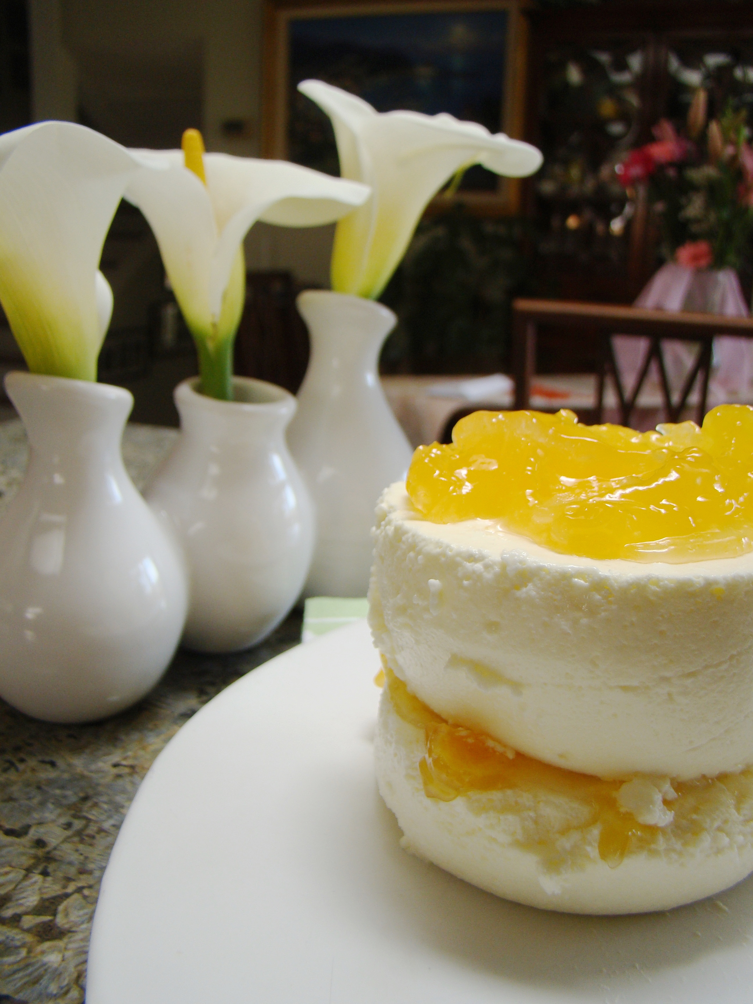 Try the recipe- you can vary it 100 hundreds of ways!